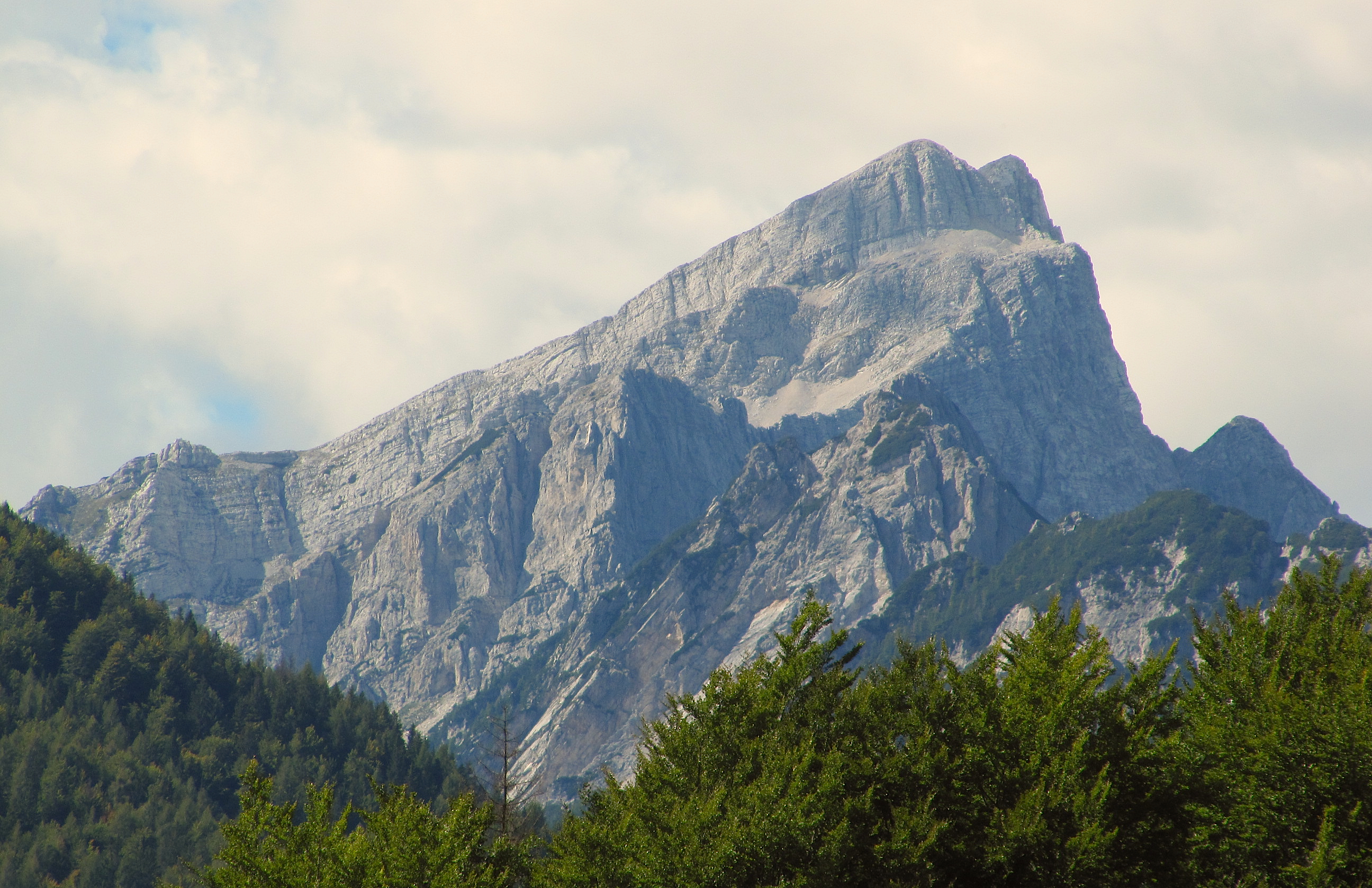 Mojstrovka, Julian Alps, Slovenia